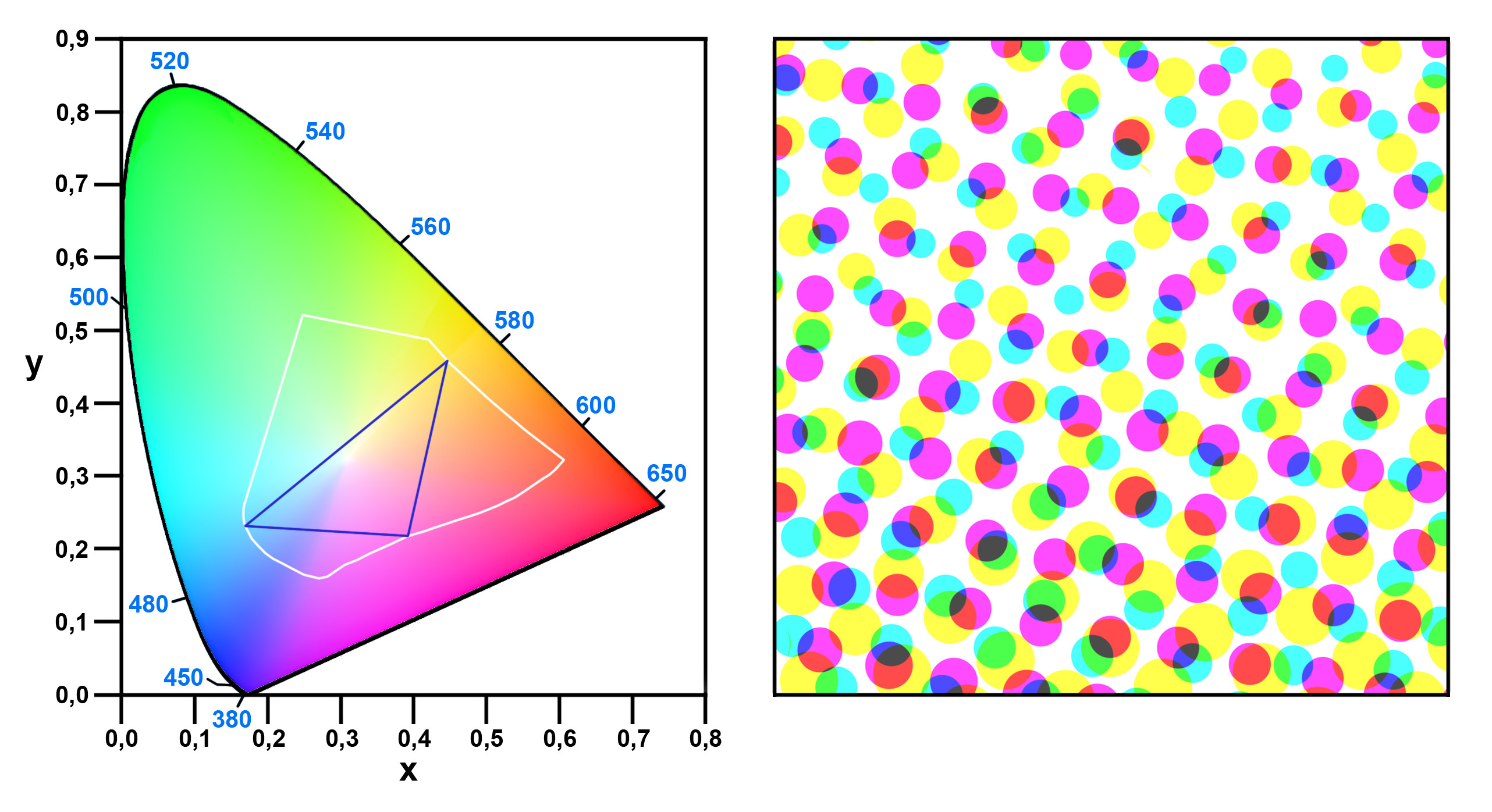 Left. Gamut of yellow, magenta and cyan print inks when used as subtractive primaries (area delimited by the white curve) and additive primaries (triangle). Right. Halftoning print using the same inks as primaries.